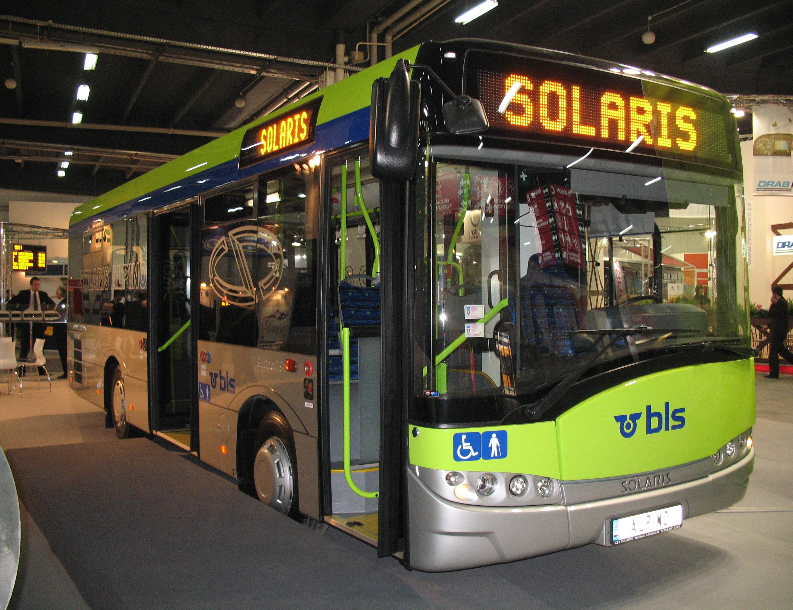 Solaris Alpino 8,9 LE bus (#14) in Kielce, Poland. Built in july 2008, Busland AG from Bern (BLS Bern) operator. Transexpo 2008 exhibition.